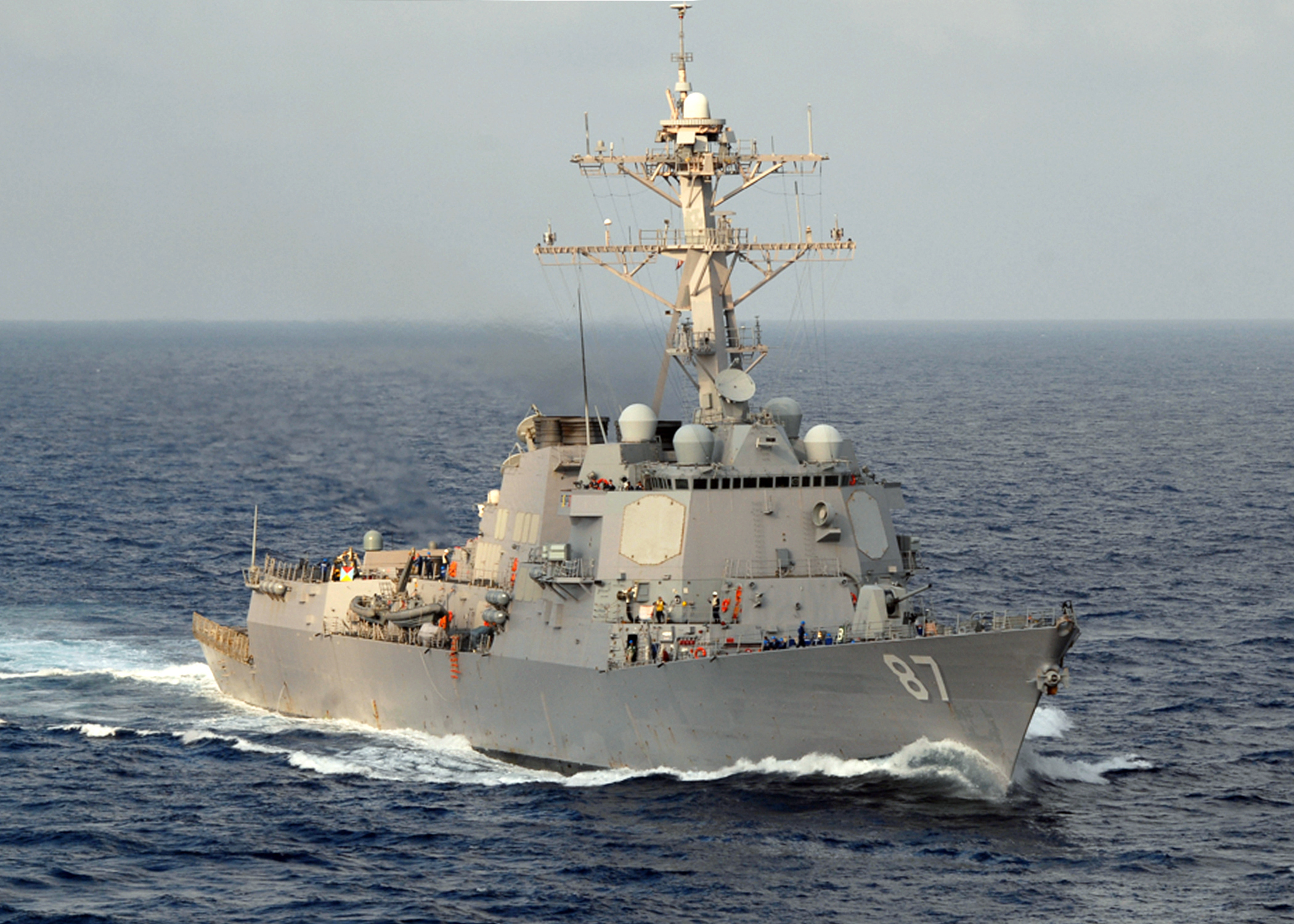 ATLANTIC OCEAN (July 29, 2008) The guided-missile destroyer USS Mason (DDG 87) steams through the Atlantic Ocean. Mason is participating in Joint Task Force Exercise (JTFEX) 08-4 as part of the Theodore Roosevelt Carrier Strike Group. (U.S. Navy photo by Mass Communication Specialist 2nd Class Katrina Parker /Released)